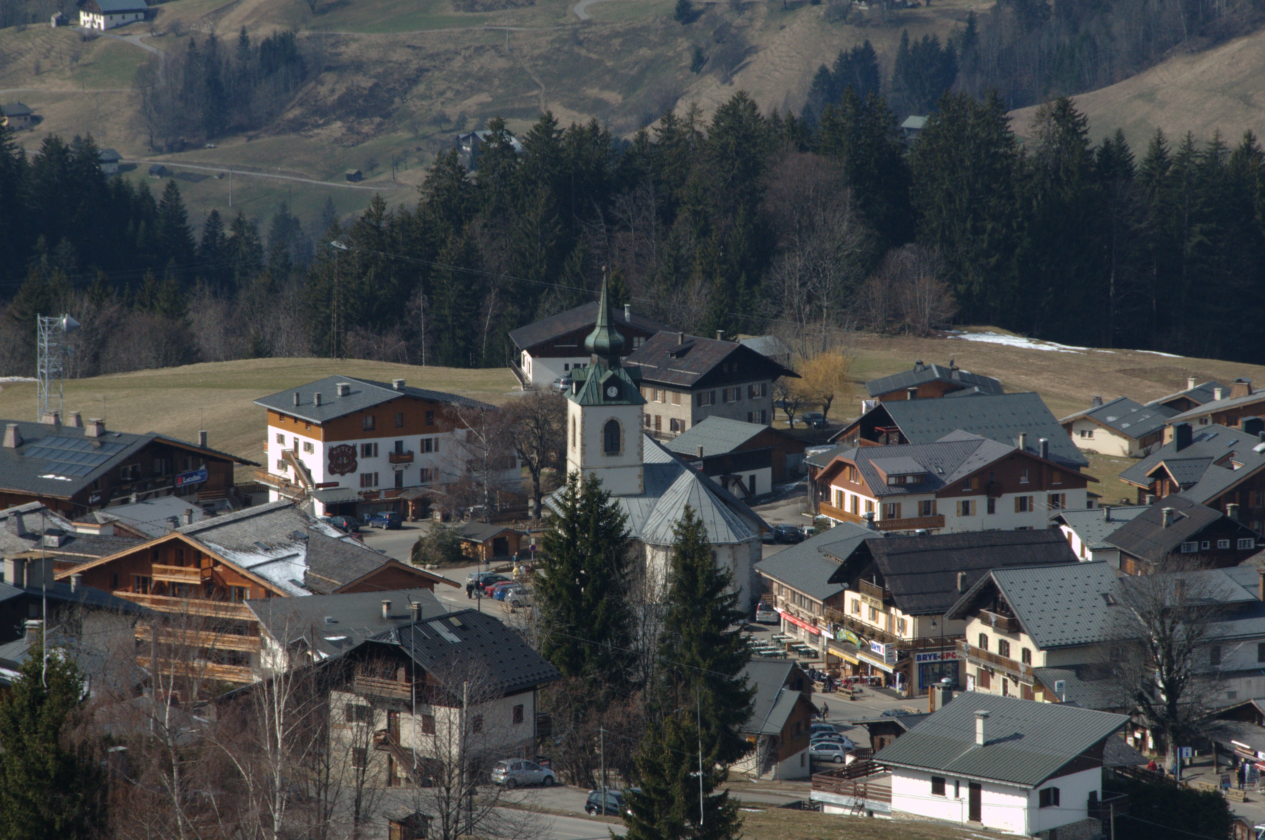 Notre-Dame-de-Bellecombe from the ski piste